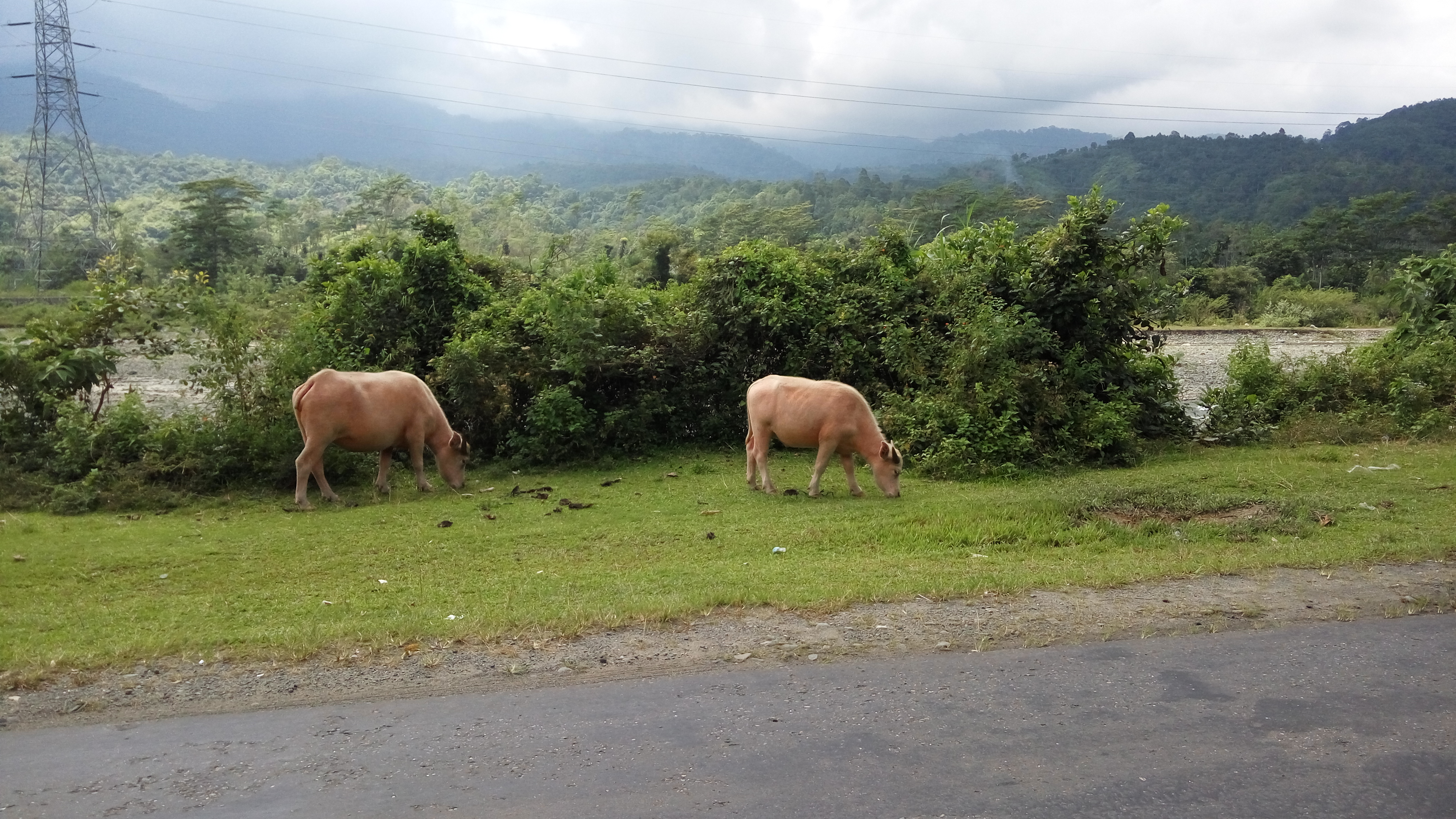 Albino buffalo in Tangse, Aceh